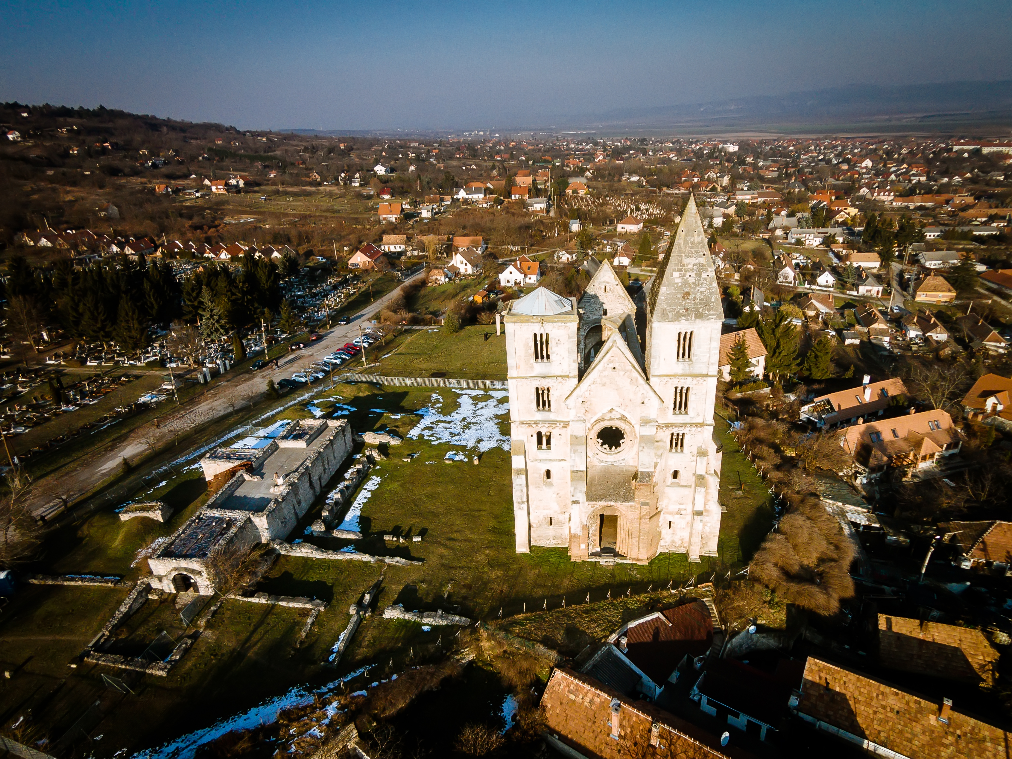 Zsámbék church ruins, aerial photo